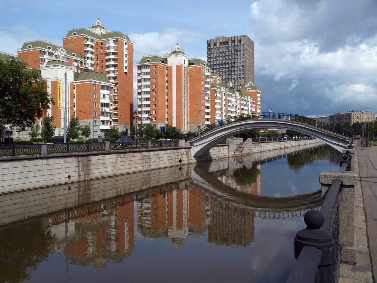 Rubtsovskaya Embankment and Rubtsov pedestrian bridge, Moscow. "Improved" plattenbau housing, late 1990s.